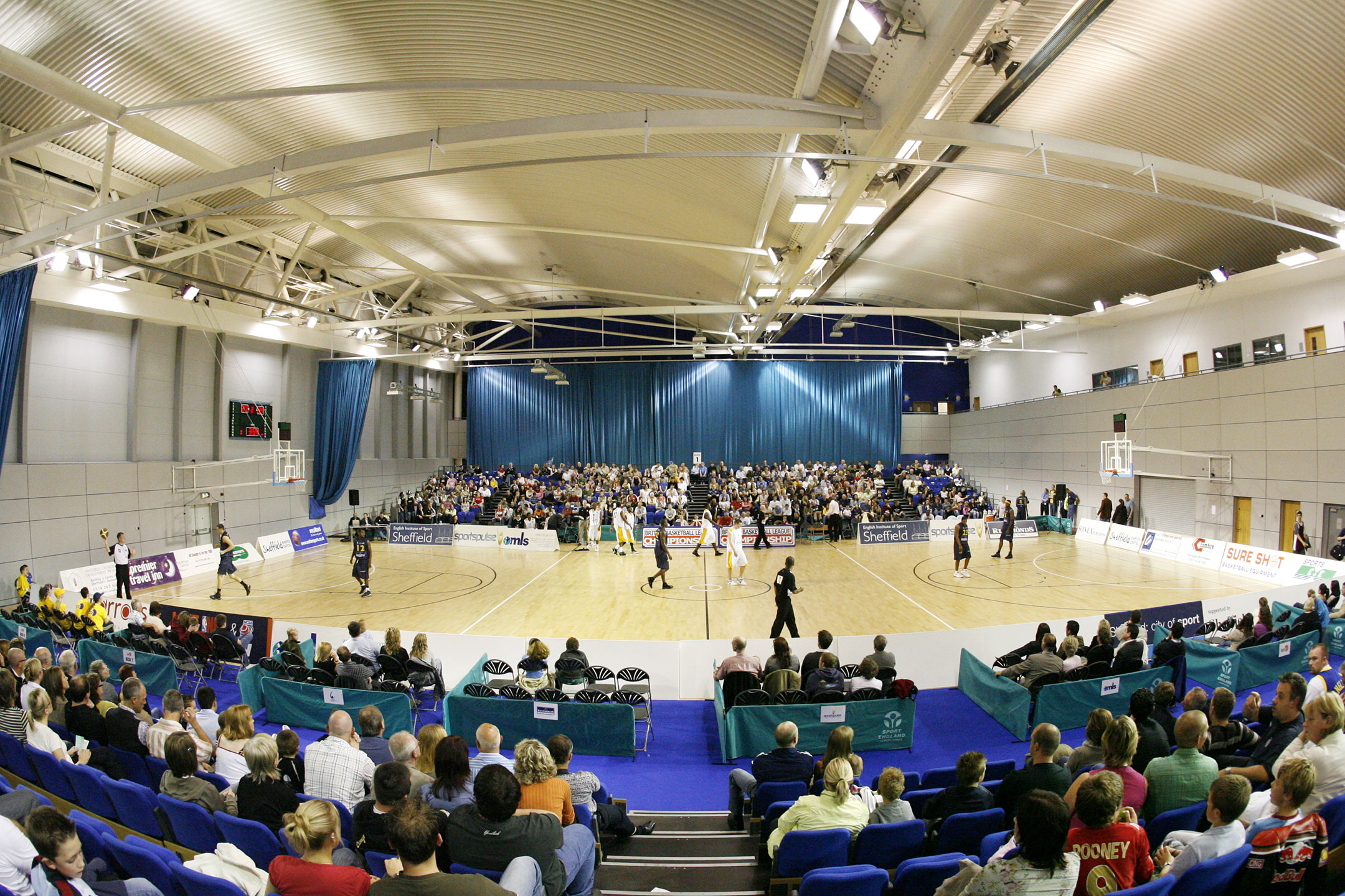 Main Sports Hall at English Institute of Sport - Sheffield, home of the Sheffield Sharks basketball team.